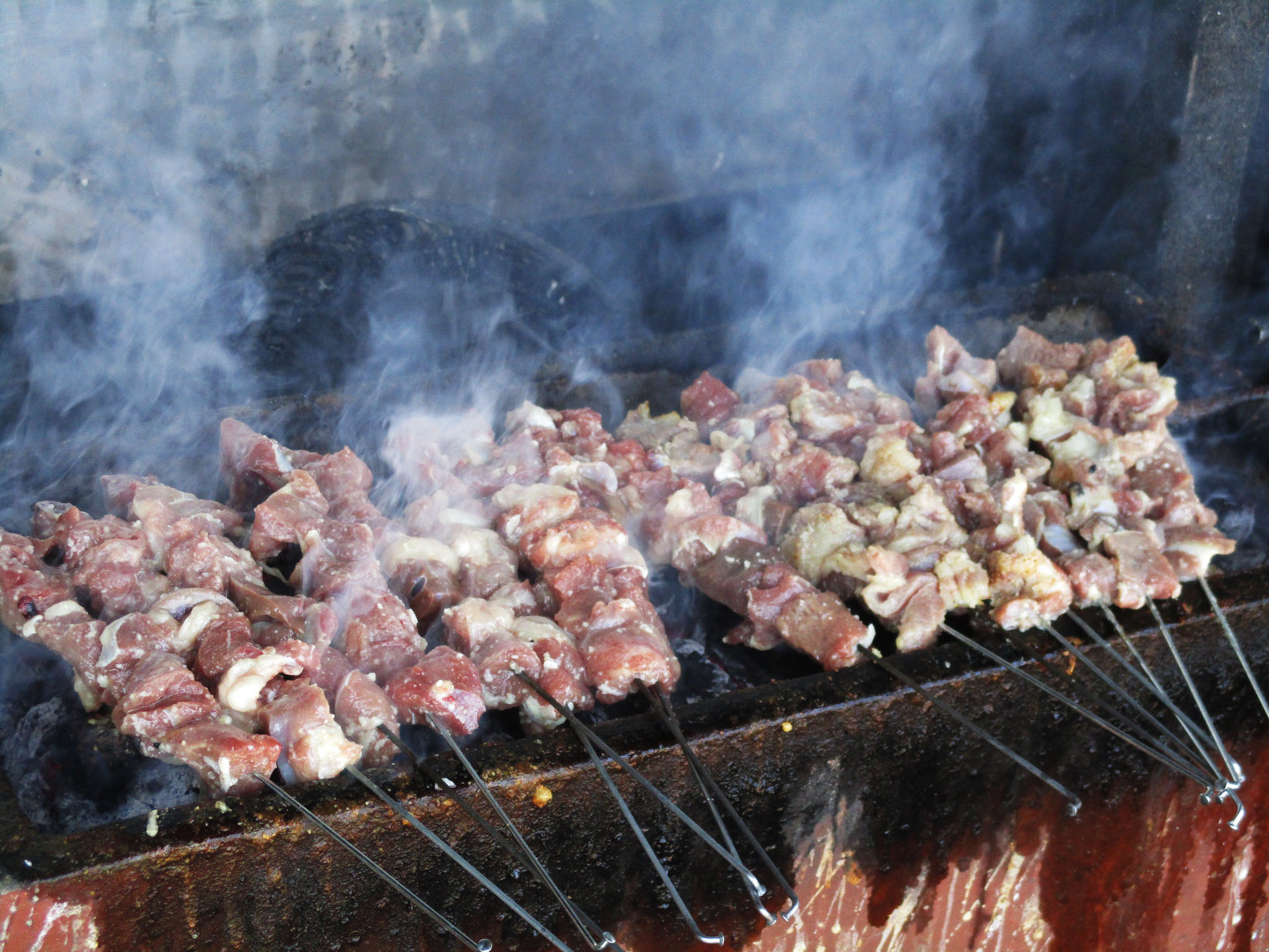 Klathak satay is grilled. Klathak satay is one of signature dish from Bantul, Yogyakarta.